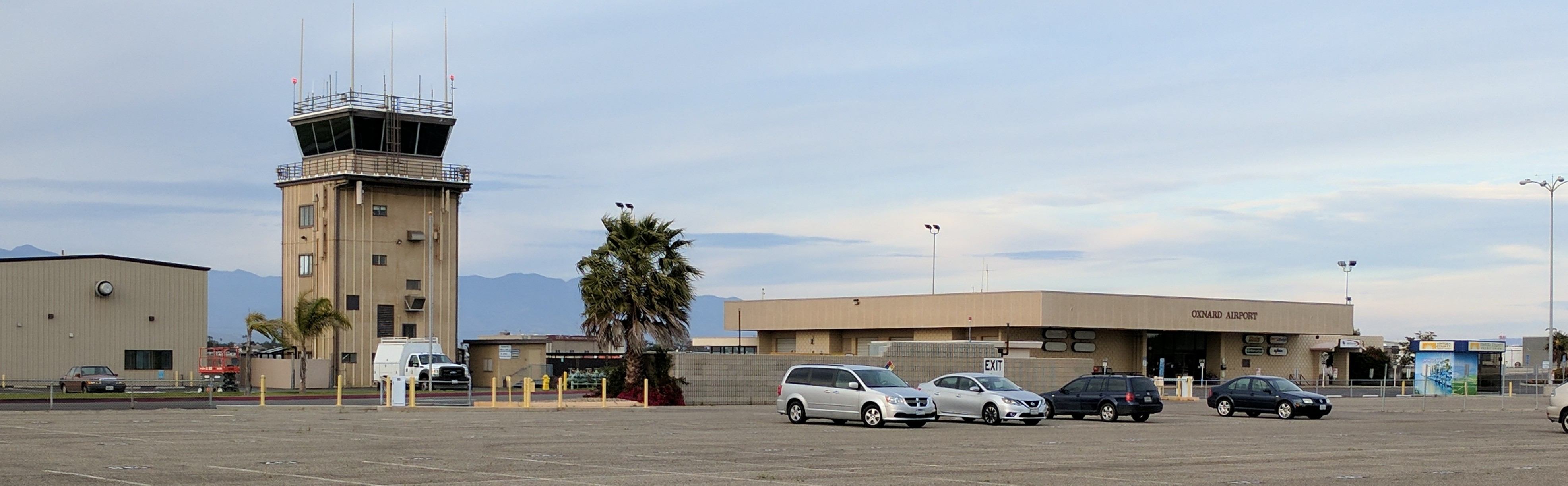 terminal and tower